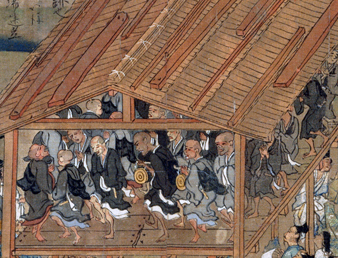 Close-up of “Ippen Hijiri-e”'s roll 7 showing monks praying and dansing in a temple in Kyoto